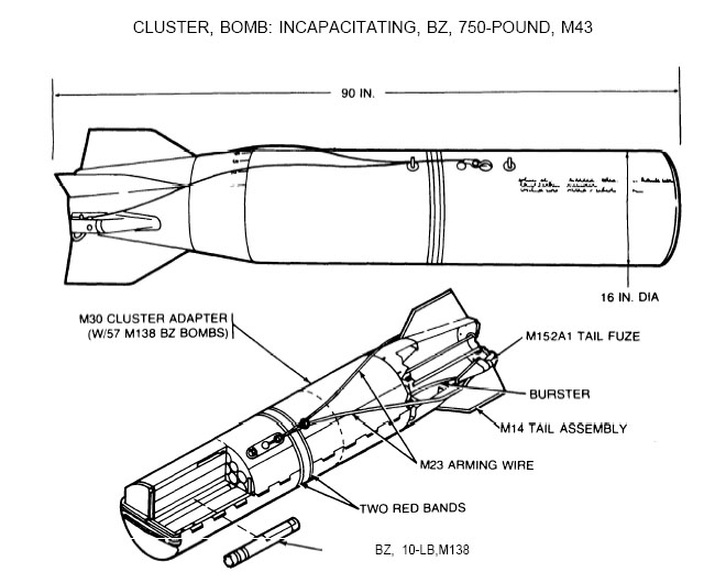 The 750 pound M43 BZ cluster bomb had a 16 inch diameter and a 66 inch length. This cluster bomb was designed to hold three stacks of 19 M138 bomblets. The bomblets each held about 6 ounces of the incapacitating agent BZ, also known as 3-Quinuclidinyl benzilate